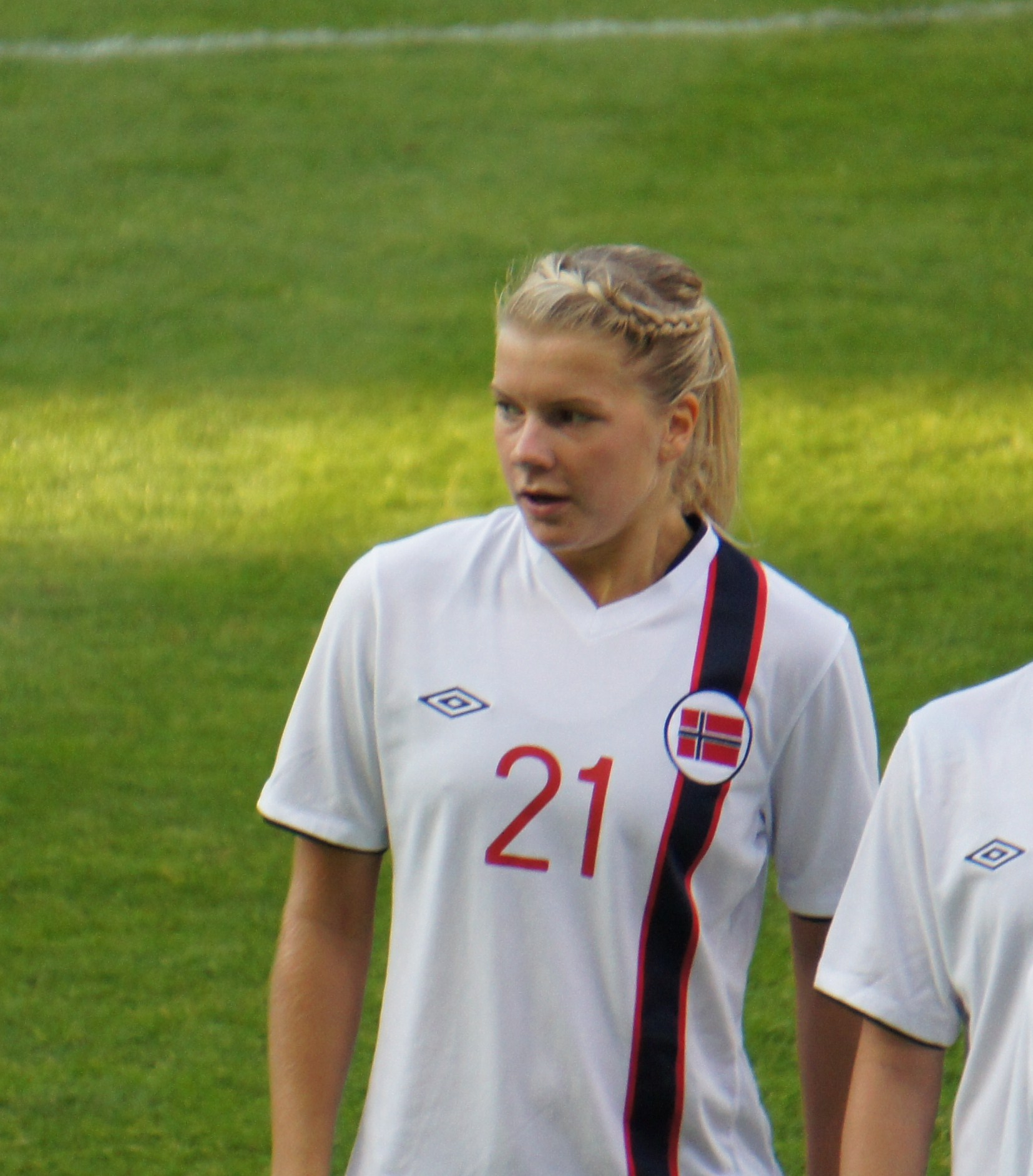 Ada Hegerberg, norwegian women's association football player.